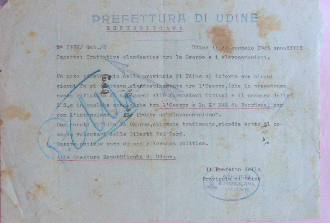 Intelligence reports contacts between german S.S. and Brigata Osoppo